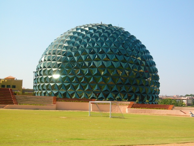 This is a building shaped like a sphere, located in the campus of the software company, Infosys in Mysore, India